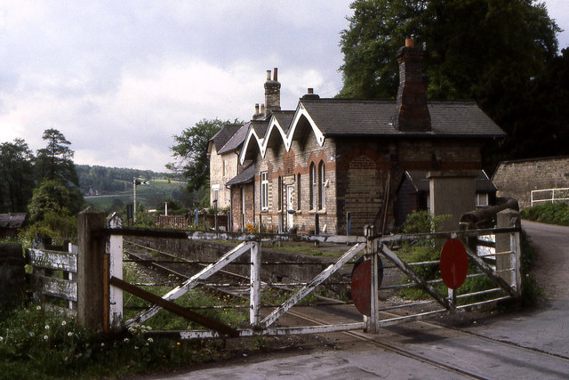 Coxbench Station Coxbench Station hasn't seen any passengers in years, though both the station building and station master's house survive in residential use.